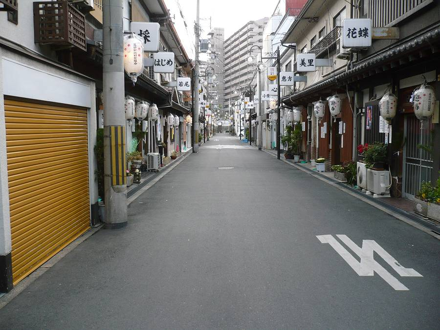 Tobitashinchi